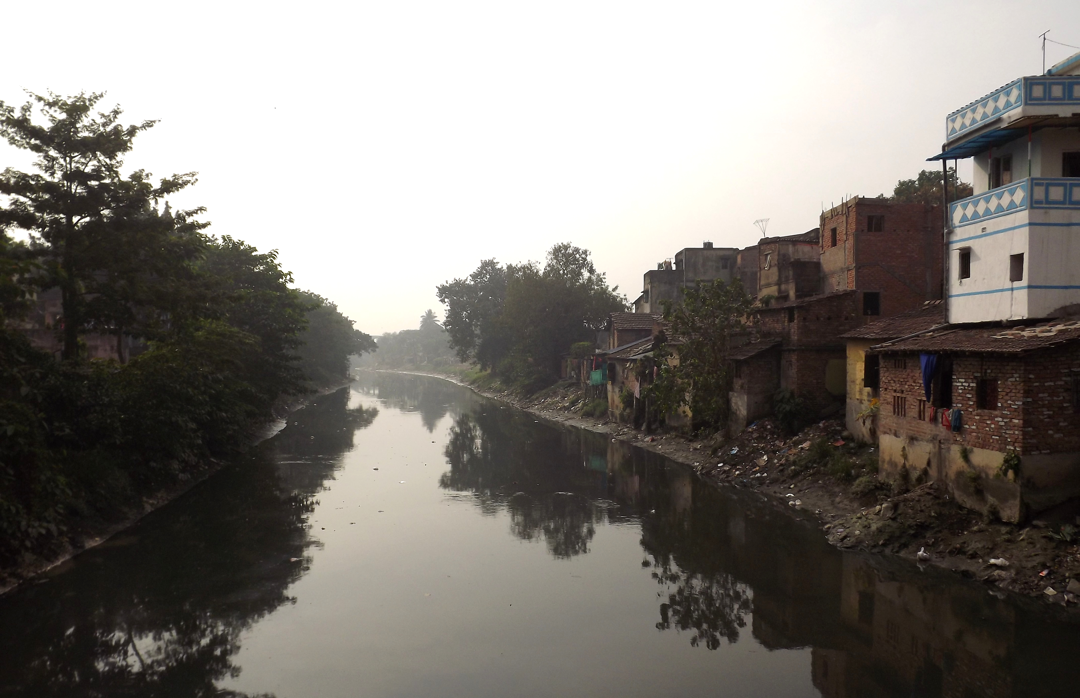 Adi Ganga or Tolly's Nullah